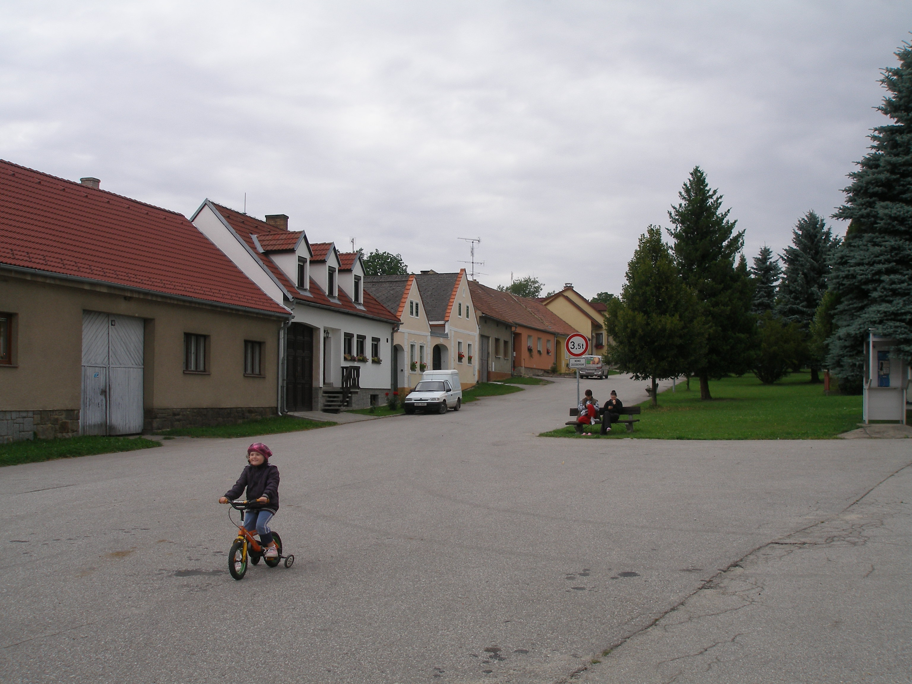 Western side of the square in Ločenice